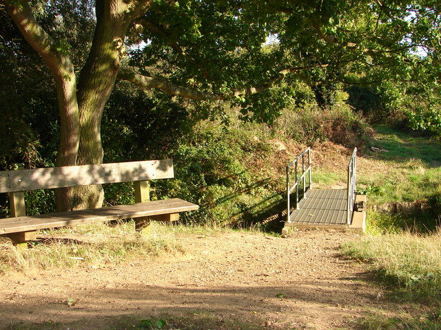 Bridge and seat on Oughtonhead Common, near to Ickleford, Hertfordshire, Great Britain. The bridge allows access across a tributary of the River Oughton and forms part of a network of footpaths on the common.